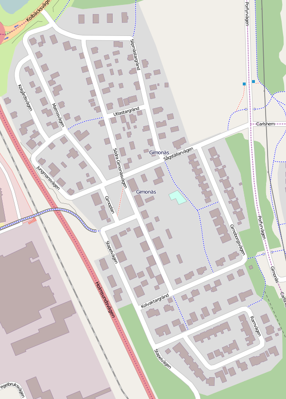 This map of Gimonäs was created from OpenStreetMap project data, collected by the community. This map may be incomplete, and may contain errors. Don't rely solely on it for navigation.